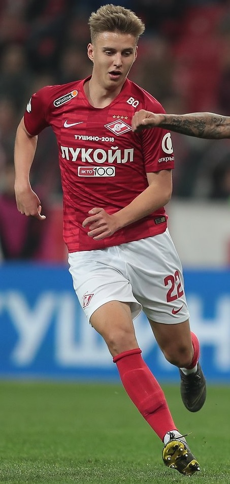 Mikhail Ignatov with FC Spartak Moscow in a game against FC Yenisey Krasnoyarsk.